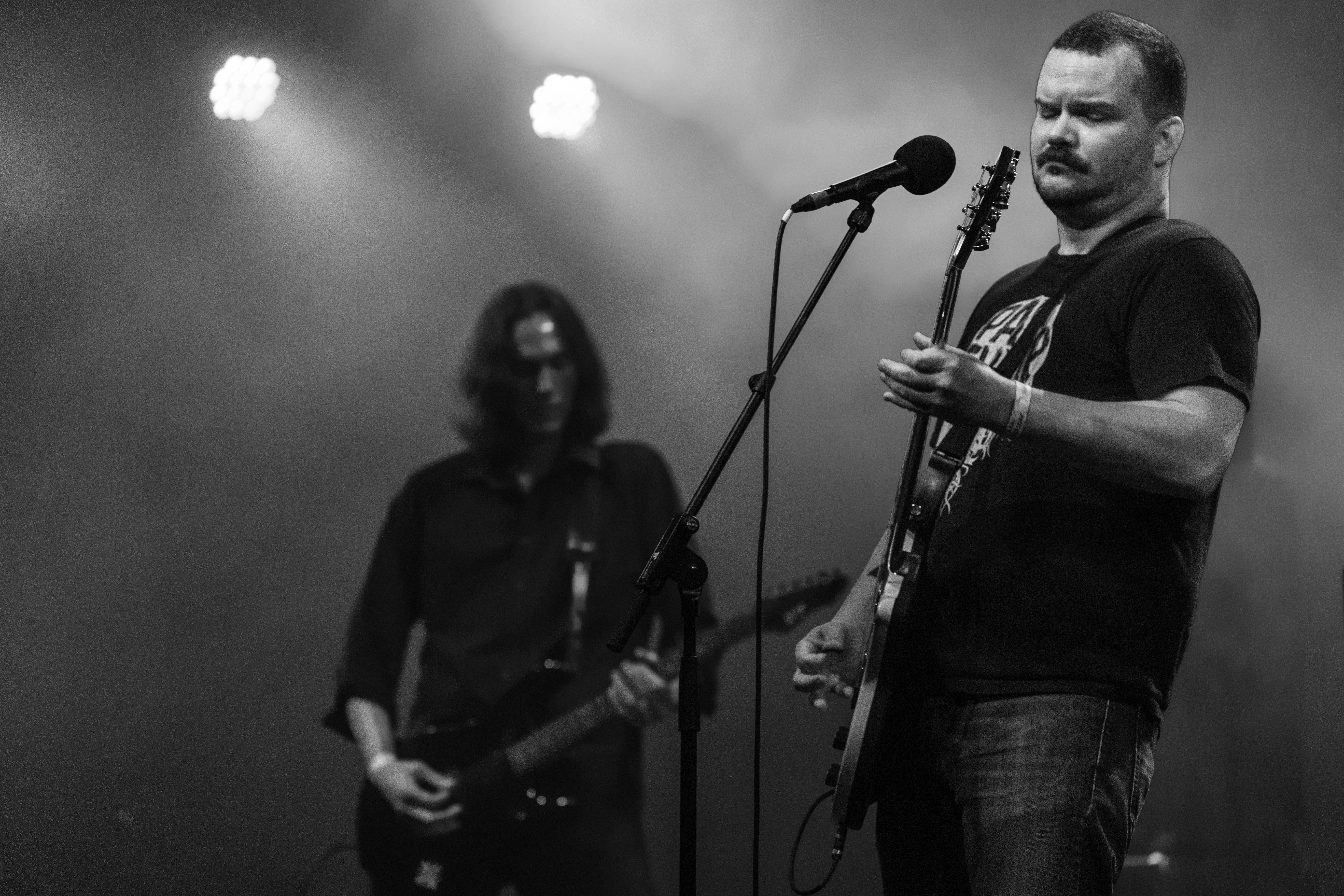 Floor performing at Roadburn Festival, april 2015